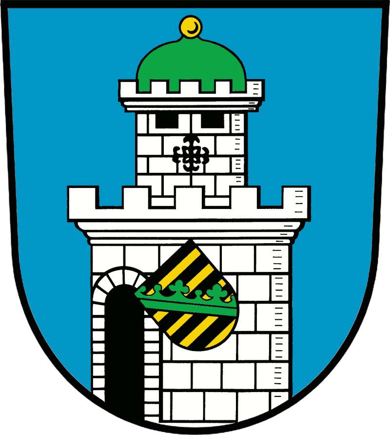 Coat of arms of Bad Belzig